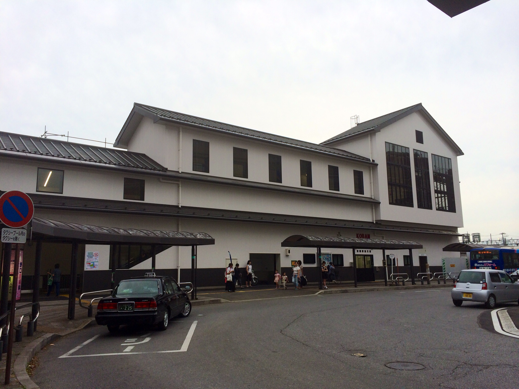 Iwatsuki Station on the Tobu Urban Park Line